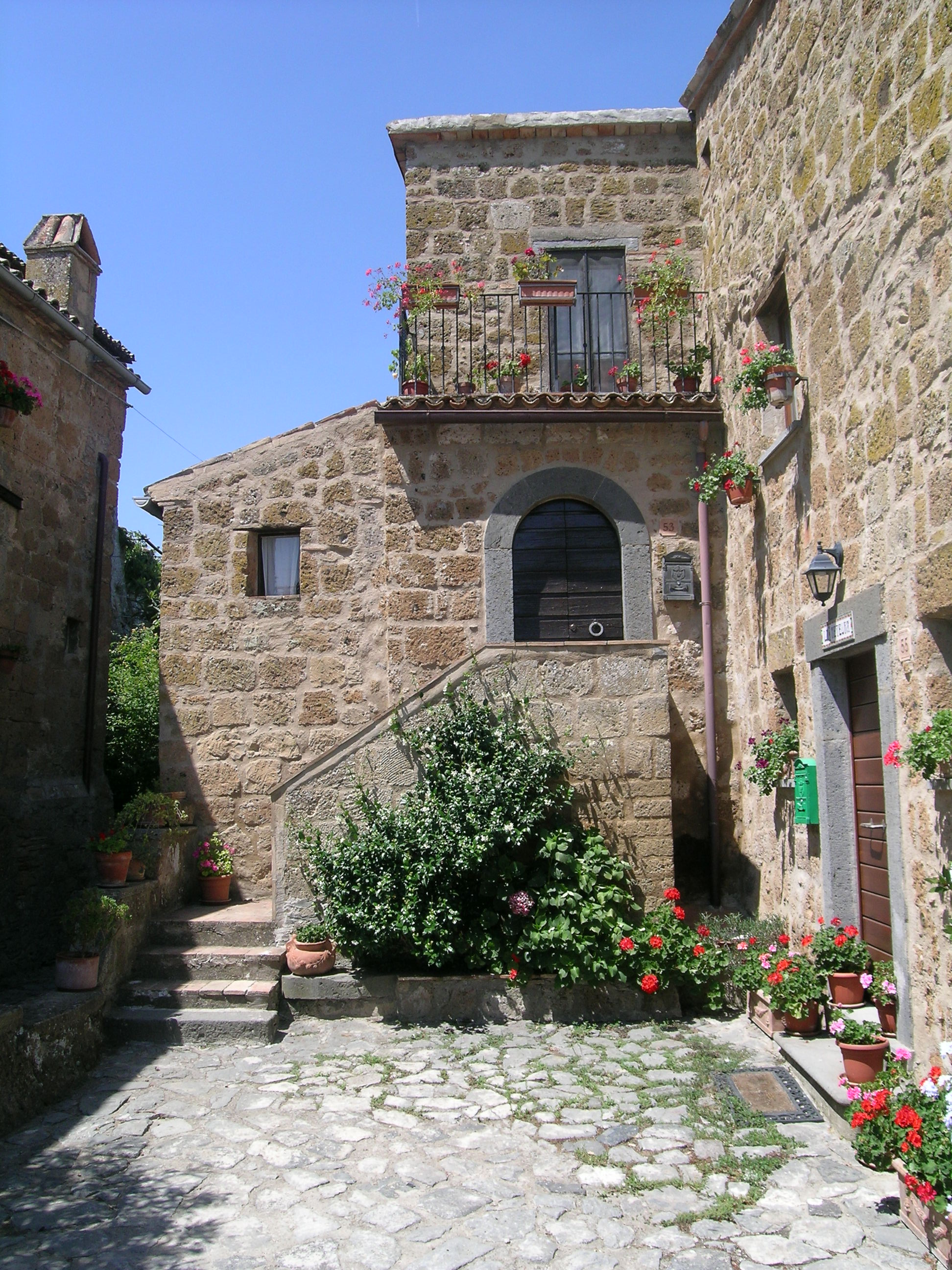 inside the town of Bagnoregio, in Lazio (Italy)